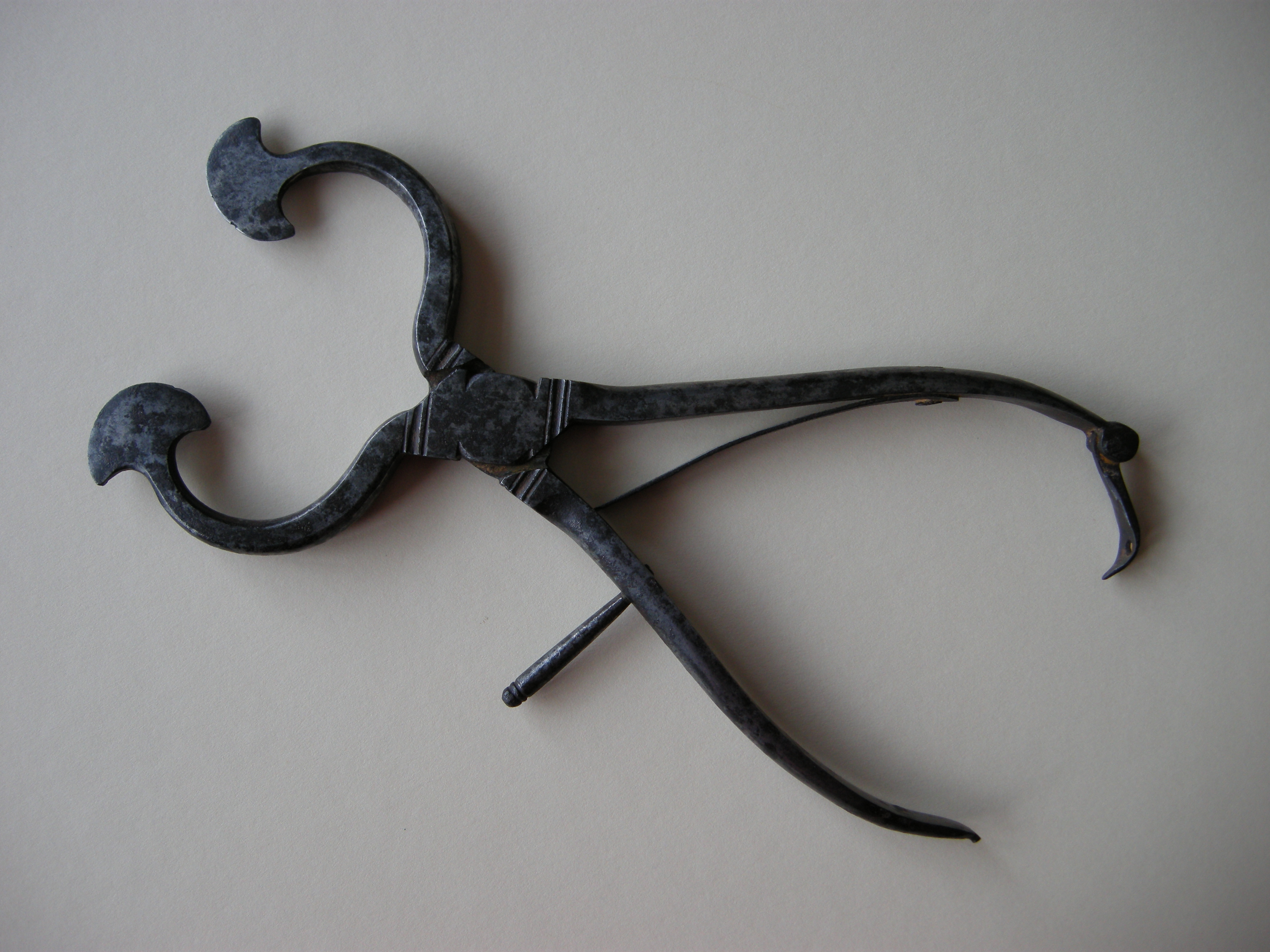 Sugar nips ... for cutting a sugarloaf ... probably 19th century.